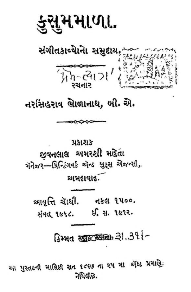 Title page of Kusum mala, first collection of poem by Narsinhrao Divetia, 4th edition, 1912